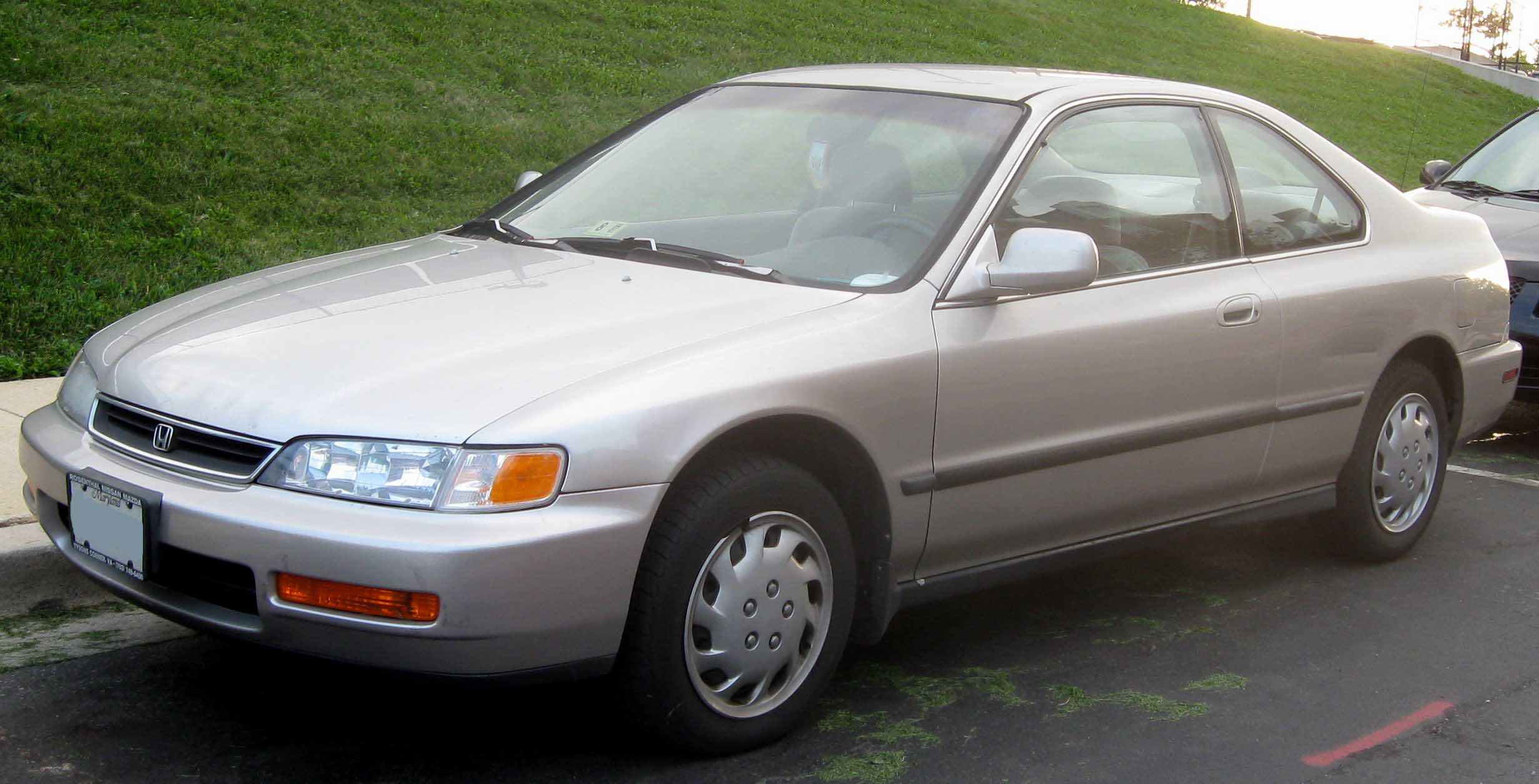 1996-1997 Honda Accord photographed in College Park, Maryland, USA.